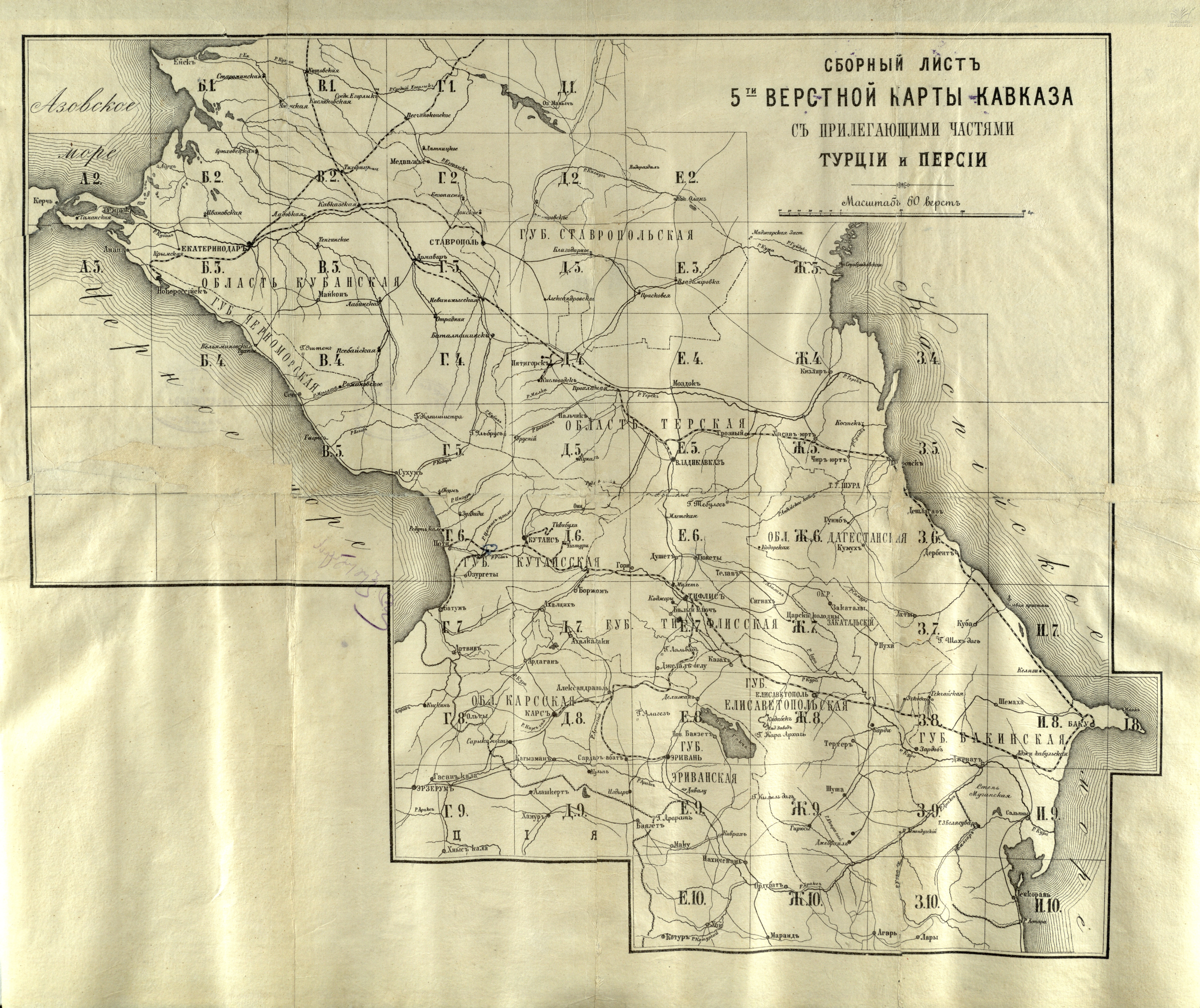 Map of the Caucasus 5 verst